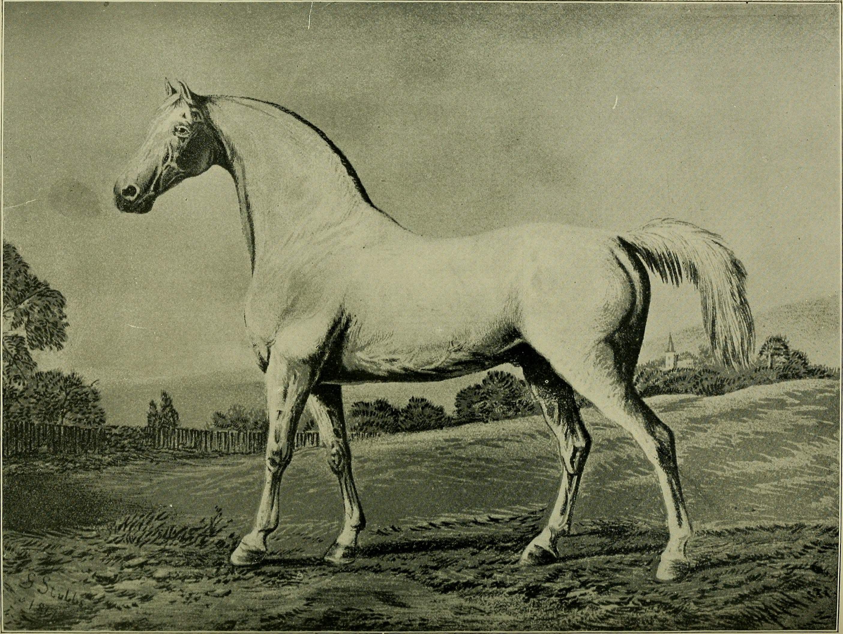 Mambrino Title: American stallion register : including all stallions prominent in the breeding of the American roadster, trotter and pacer, from the earliest records to 1902. And this includes nearly all imported English thoroughbreds, and their more distinguished get, together with many of the English stallions from which they are descended ... Year: 1909 (1900s) Authors: Battell, Joseph, 1839-1915, comp Subjects: Horses; Horses; Morgan horse; Horses Publisher: Middlebury, Vt. : American Pub. Co. Text Appearing Before Image: ' Text Appearing After Image: '